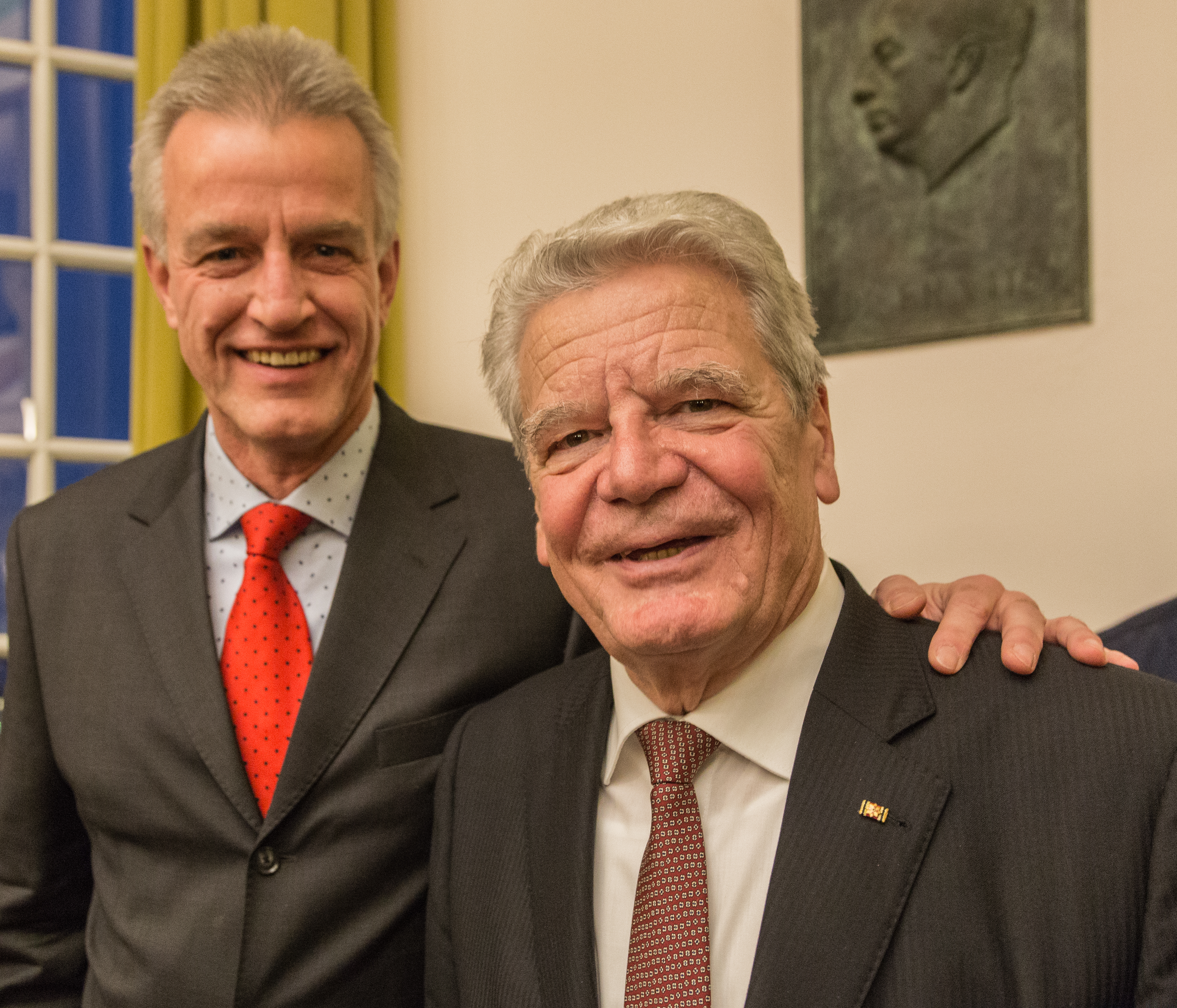 Honorary doctorate ceremony for Joachim Gauck, former President of the Federal Republic of Germany, at the auditorium of the University of Münster (Westfälische Wilhelms-Universität Münster) in Münster, North Rhine-Westphalia, Germany. Joachim Gauck was awarded an honorary doctorate (Dr. h.c. theol.) by the Faculty of Protestant Theology of the University. Here after the ceremony Joachim Gauck (right) with Norbert Robers, spokesman of the University of Münster and Gauck's first biographer.